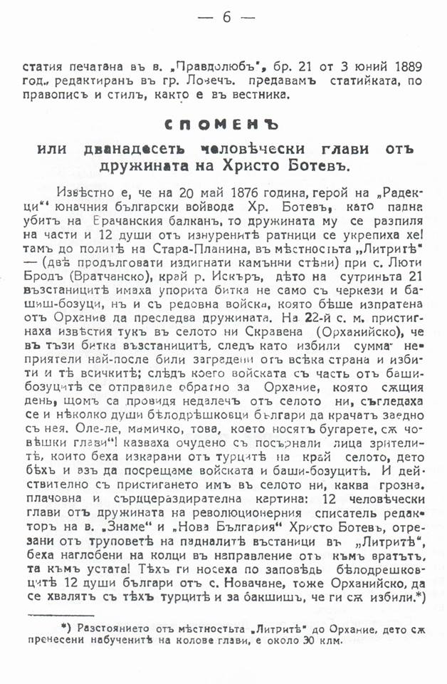 This photo was uploaded during the creation of the first wikitown in Bulgaria – WikiBotevgrad.